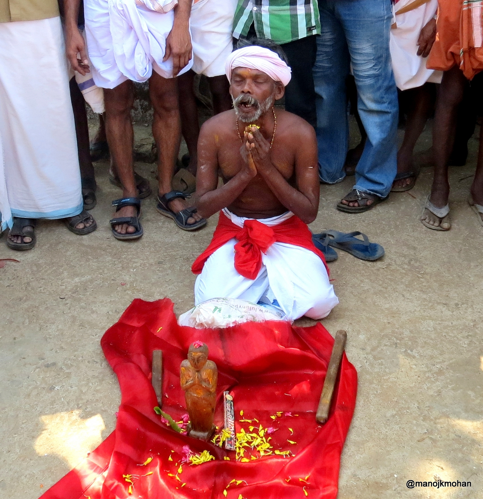 Nayadikkali. a folk art from Kerala (valluvandadu Zone). Snap taken From Uthralikkavu Poora